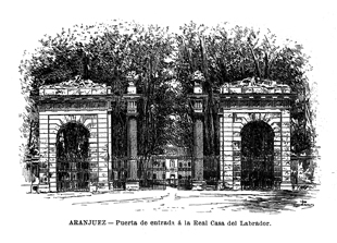 Entry to House of Labrador, Aranjuez. Community of Madrid, Spain